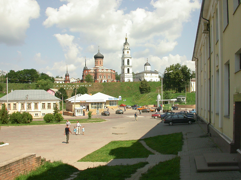 In the center of Volokolamsk, old russian town in Moscow region, 2003